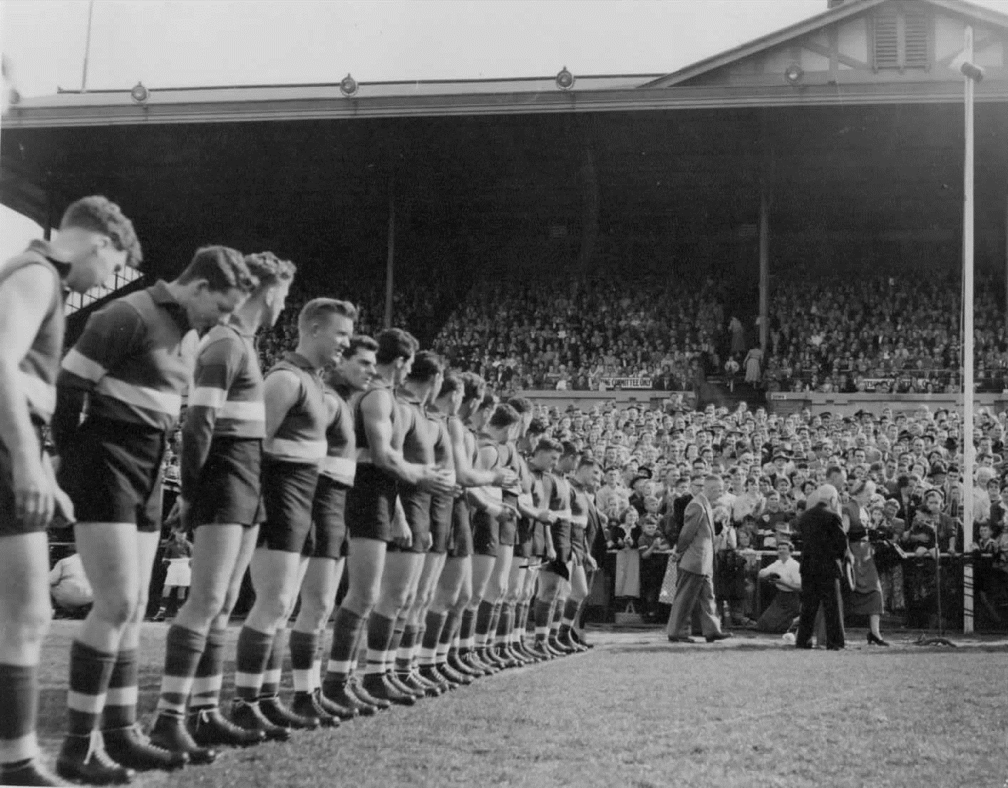 Footscray Football Club (Australian rules football) player line-up at the unfurling of 1954 premiership flag at the Western Oval before match against Richmond Football Club.